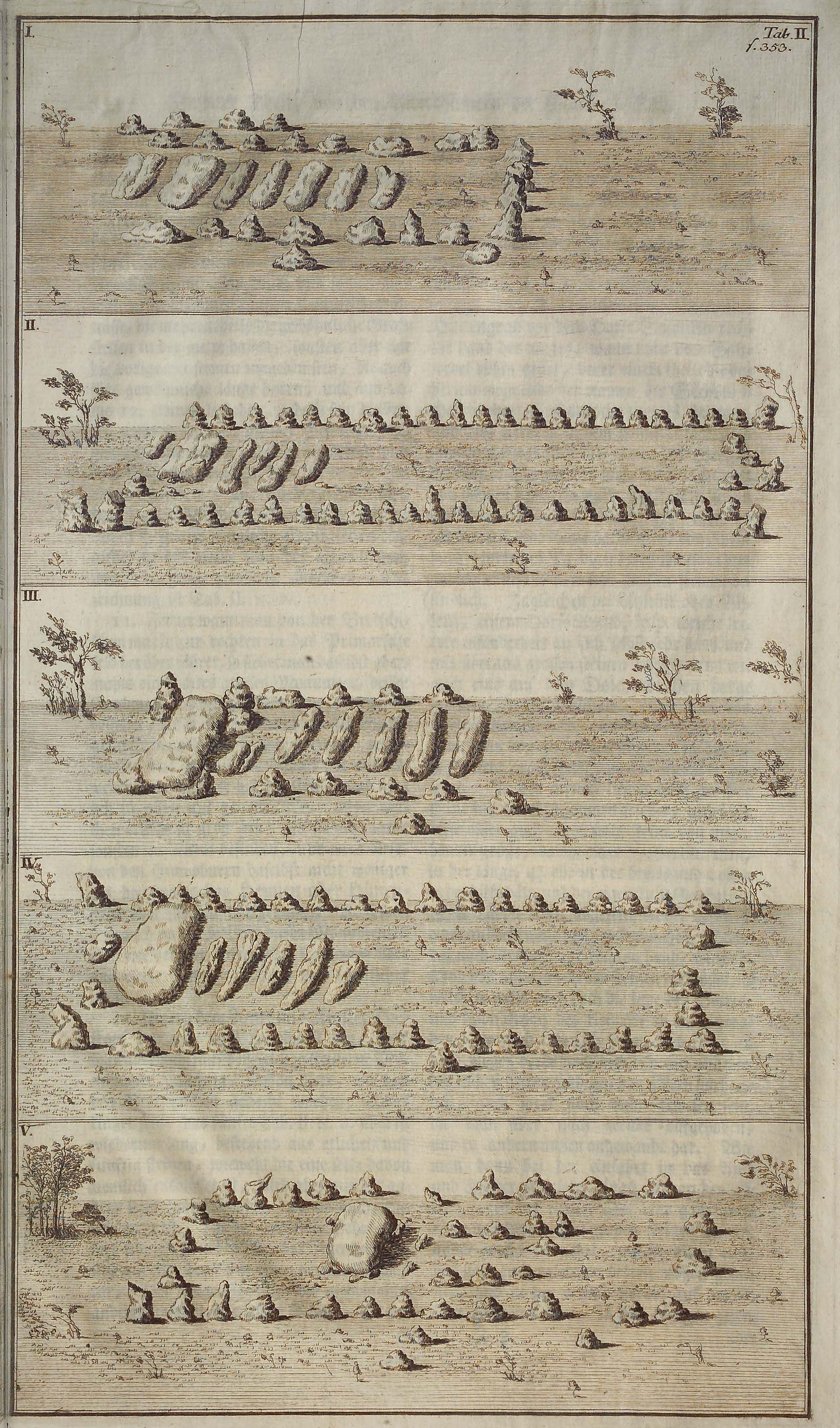 Some dolmens of the Altmark, depicted in Johann Christoph Bekmann, Bernhard Ludwig Bekmann: Historische Beschreibung der Chur und Mark Brandenburg nach ihrem Ursprung, Einwohnern, Natürlichen Beschaffenheit, Gewässer, Landschaften, Stäten, Geistlichen Stiftern etc. [...]. Vol. 1, Berlin 1751